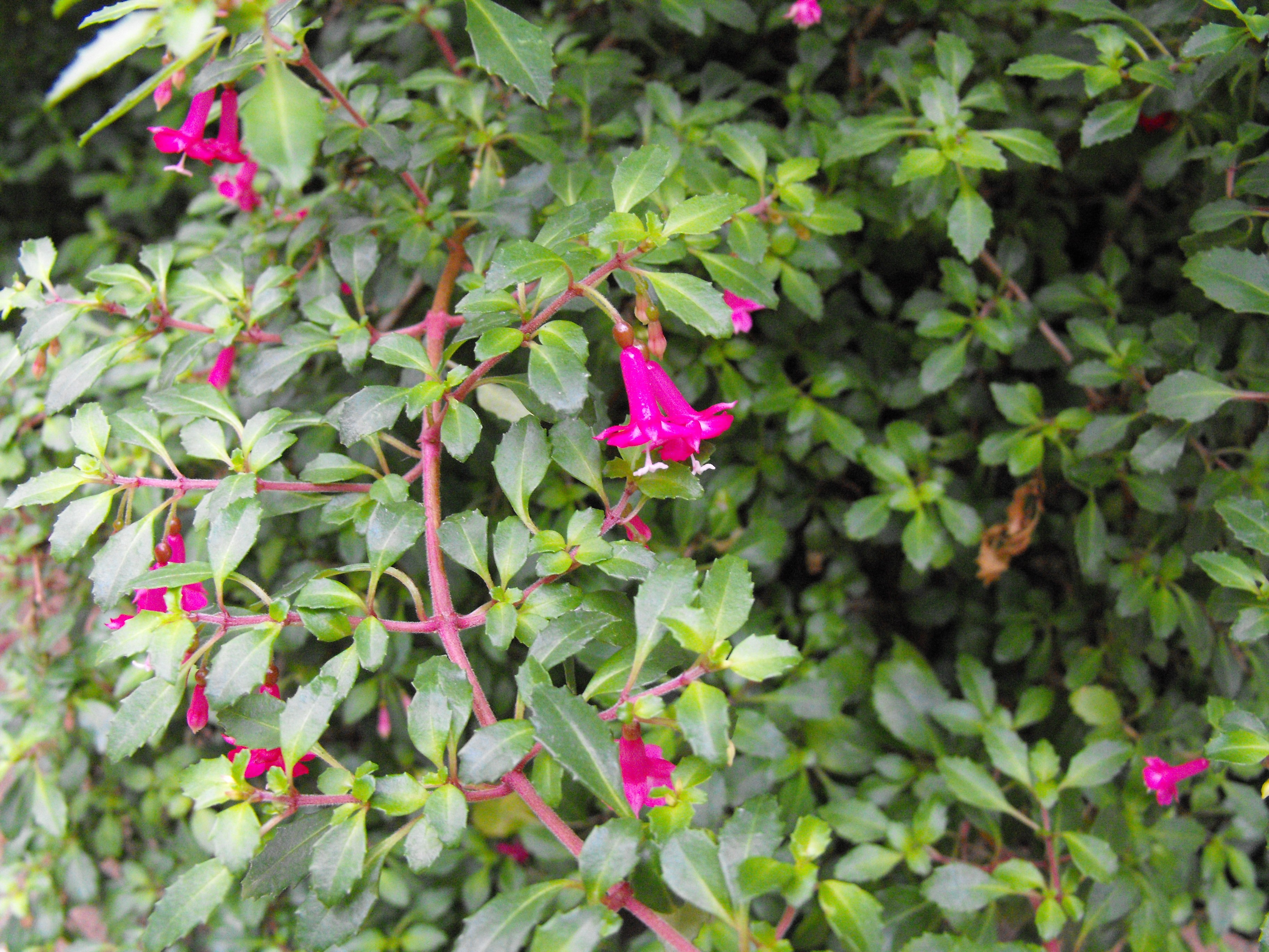 Fuchsia thymifolia in the Botanical Building at Balboa Park, San Diego, California, USA